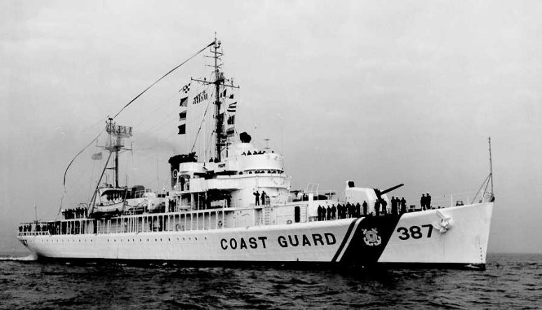 United States Coast Guard cutter USCGC Gresham (WAVP-387), later WHEC-387, later WAGW-387.